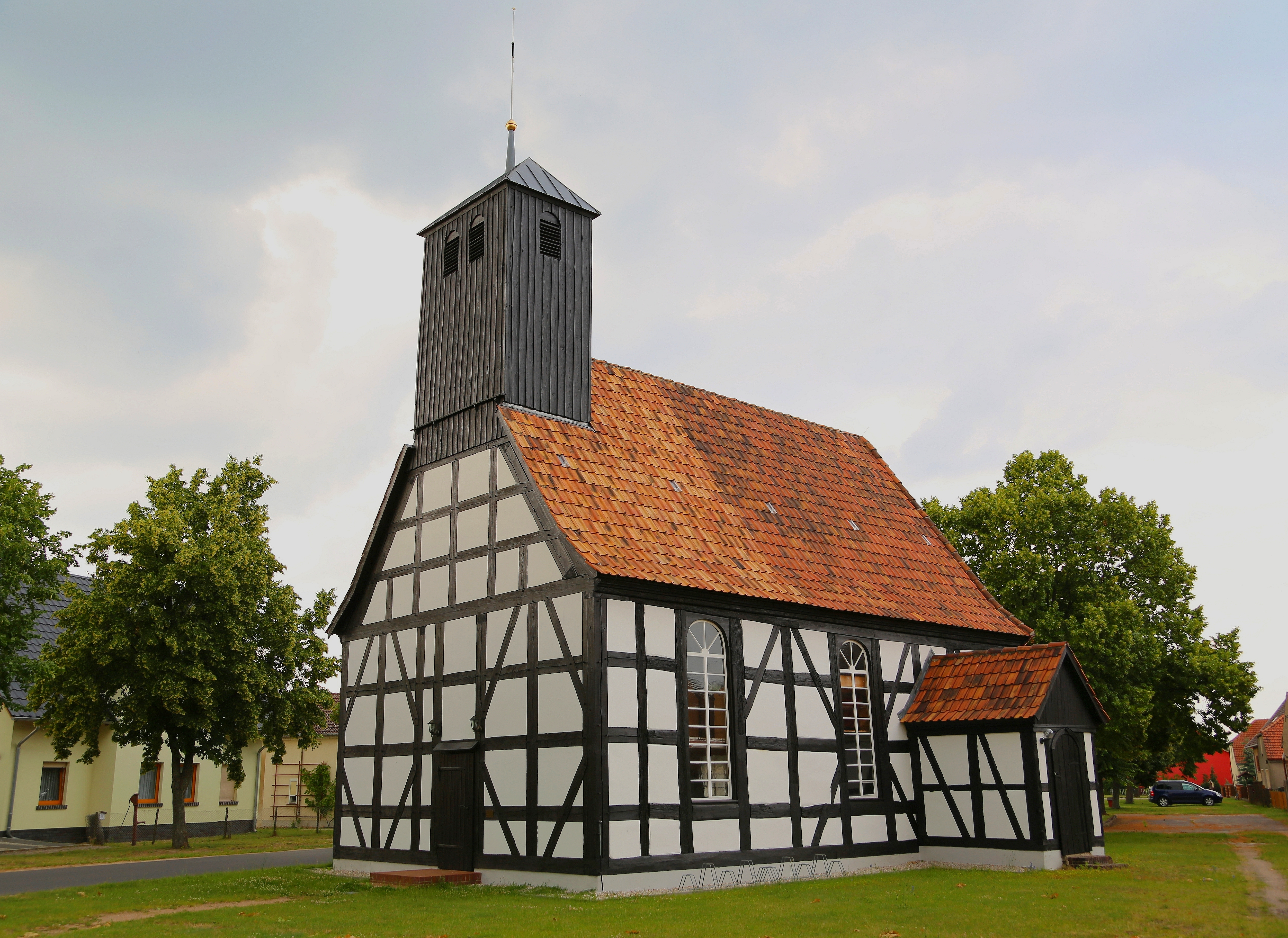 Timber framed Protestant Village Church (Evangelische Dorfkirche) in Groß Lubolz. Lubolz is a district of Lübben, Landkreis Dahme-Spreewald, Brandenburg, Germany. The church is a listed cultural heritage monument.